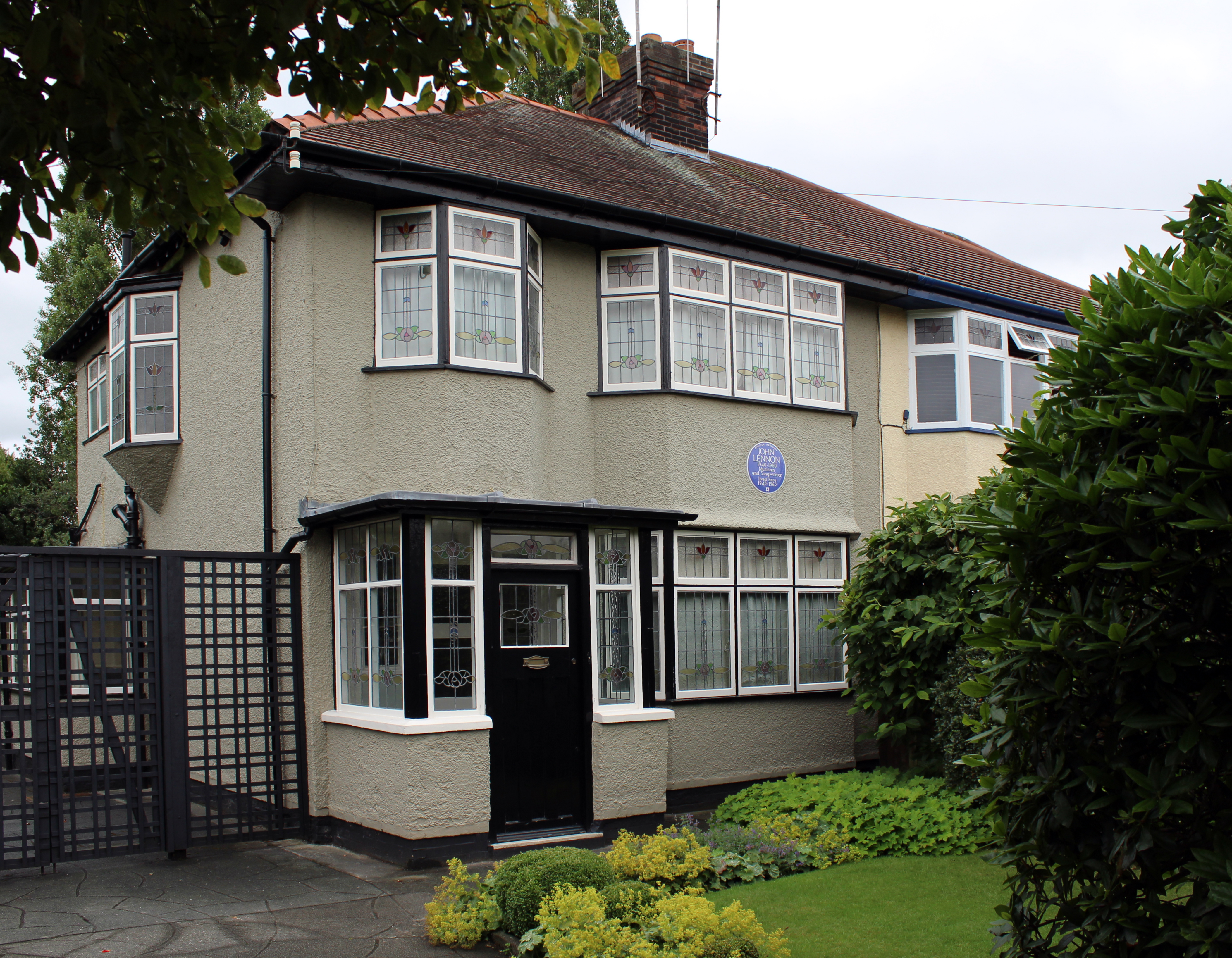 View from the front gate